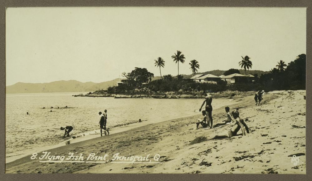 Enjoying the beach at Flying Fish Point, Innisfail, 1930 Innisfail is one of the wettest cities in Australia and was established in 1880. Innisfail is basically a sugar town and its economy is largely dependent on the sugar plantations which surround the town, the bulk sugar loading facilities at Mourilyan and the numerous mills in the area.